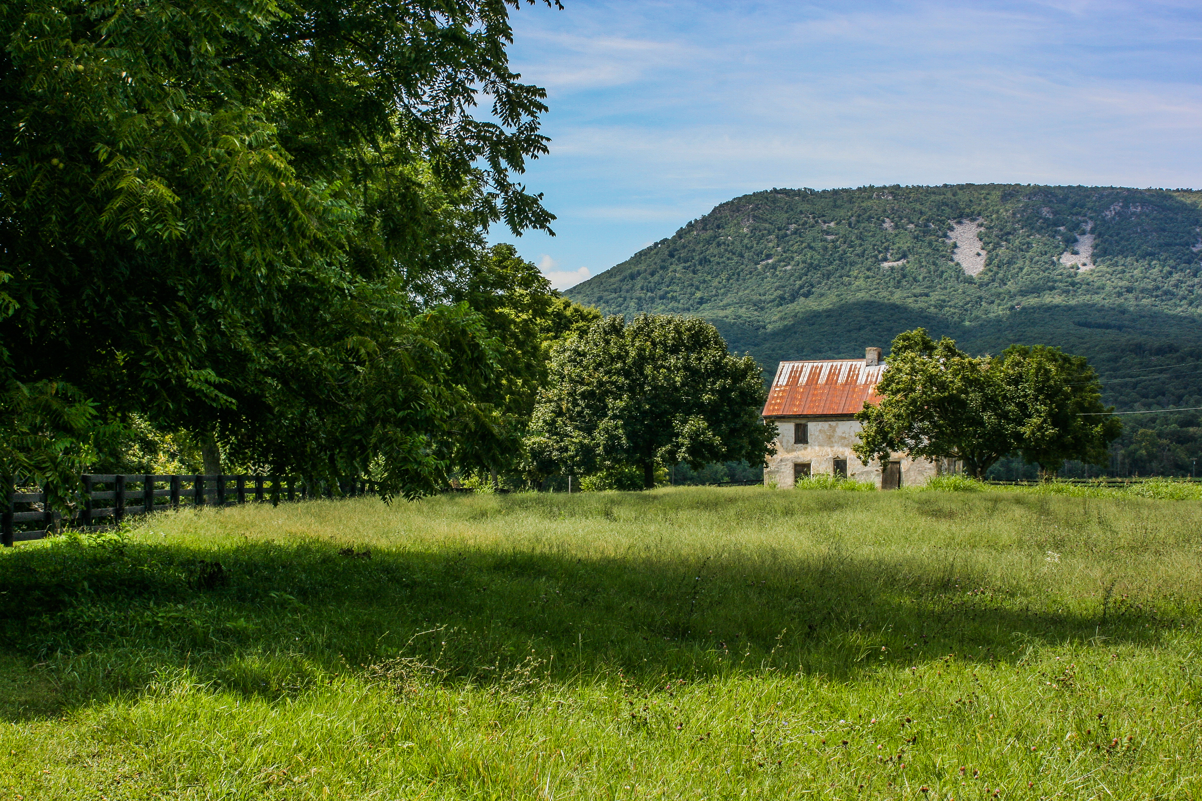 This house was built in 1760 by Martin Kauffman Jr. in the Page Valley, Virginia, near present-day Luray. It was built as a residence and church building for the Kauffmans and other early settlers in this Massanutten settlement. Martin's father, Martin Kauffman Sr, moved to this valley from Lancaster County, PA in 1732. He was was one of the first European settlers in the Shenandoah Valley.